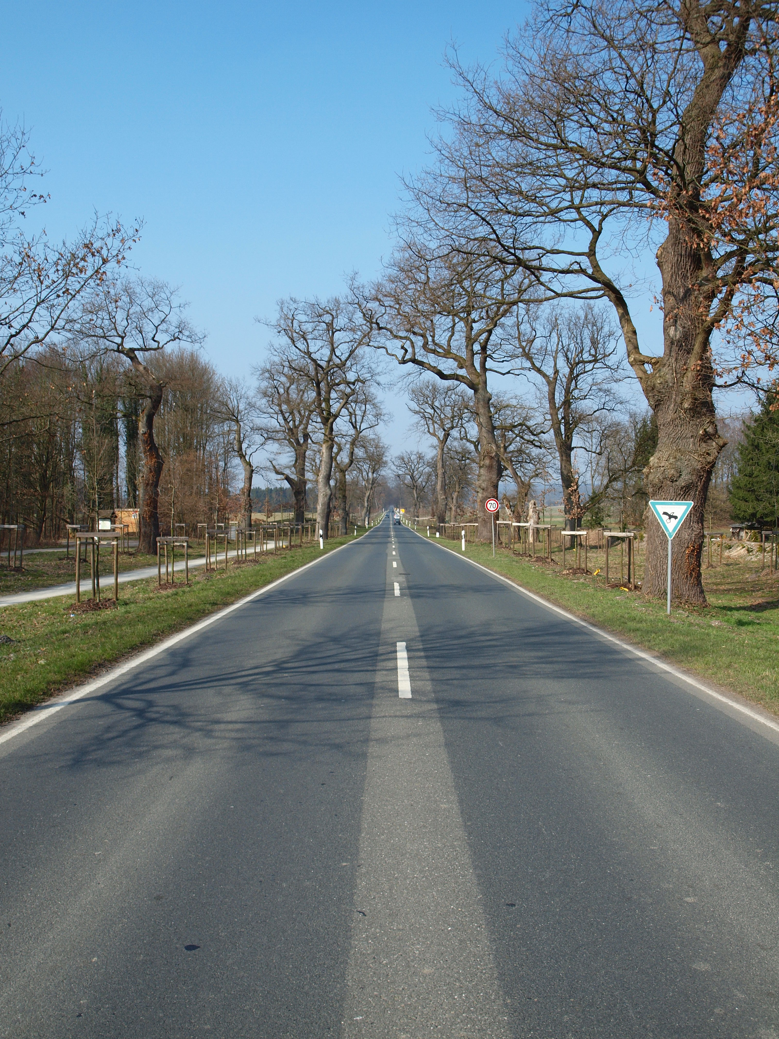 Fürstenallee with young and old oaks